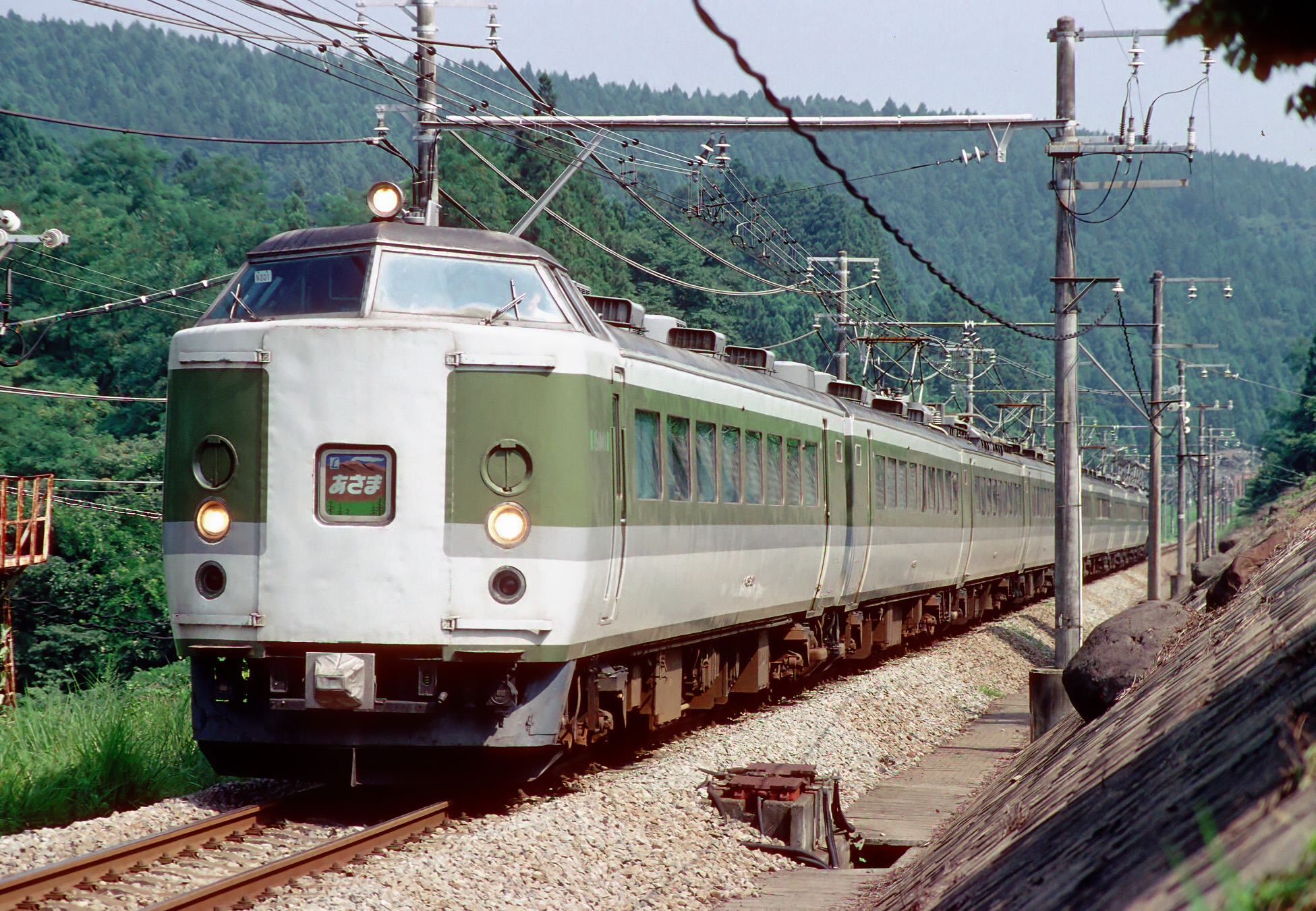 East Japan Railway Company 489 series EMU on an Asama limited express service running between Yokokawa and Karuizawa on the Shinetsu Main Line